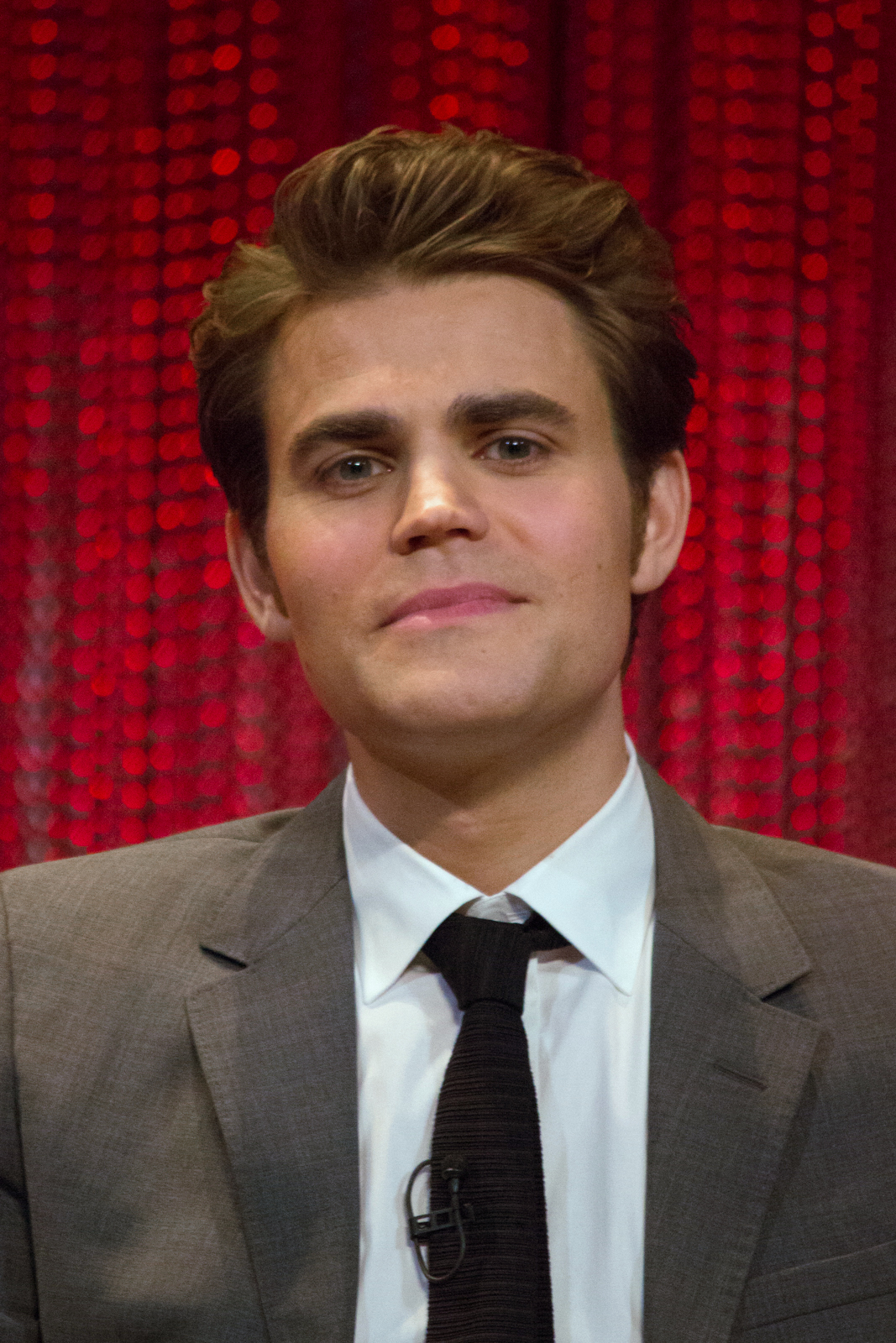 Paul Wesley at The Paley Center For Media's PaleyFest 2014 Honoring "The Vampire Diaries"